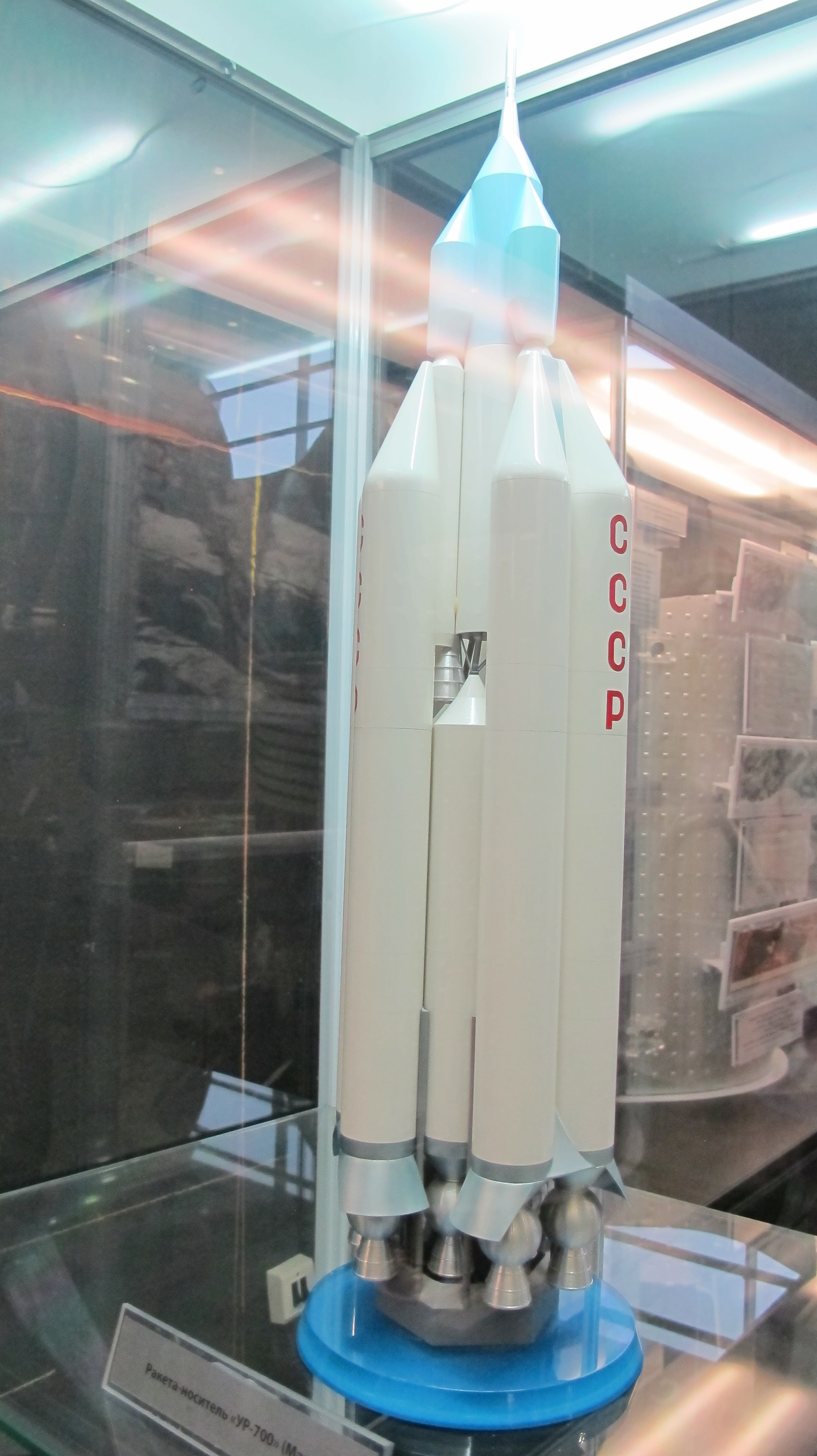 Wikiexpedition to Kaluga 2016-06-11.